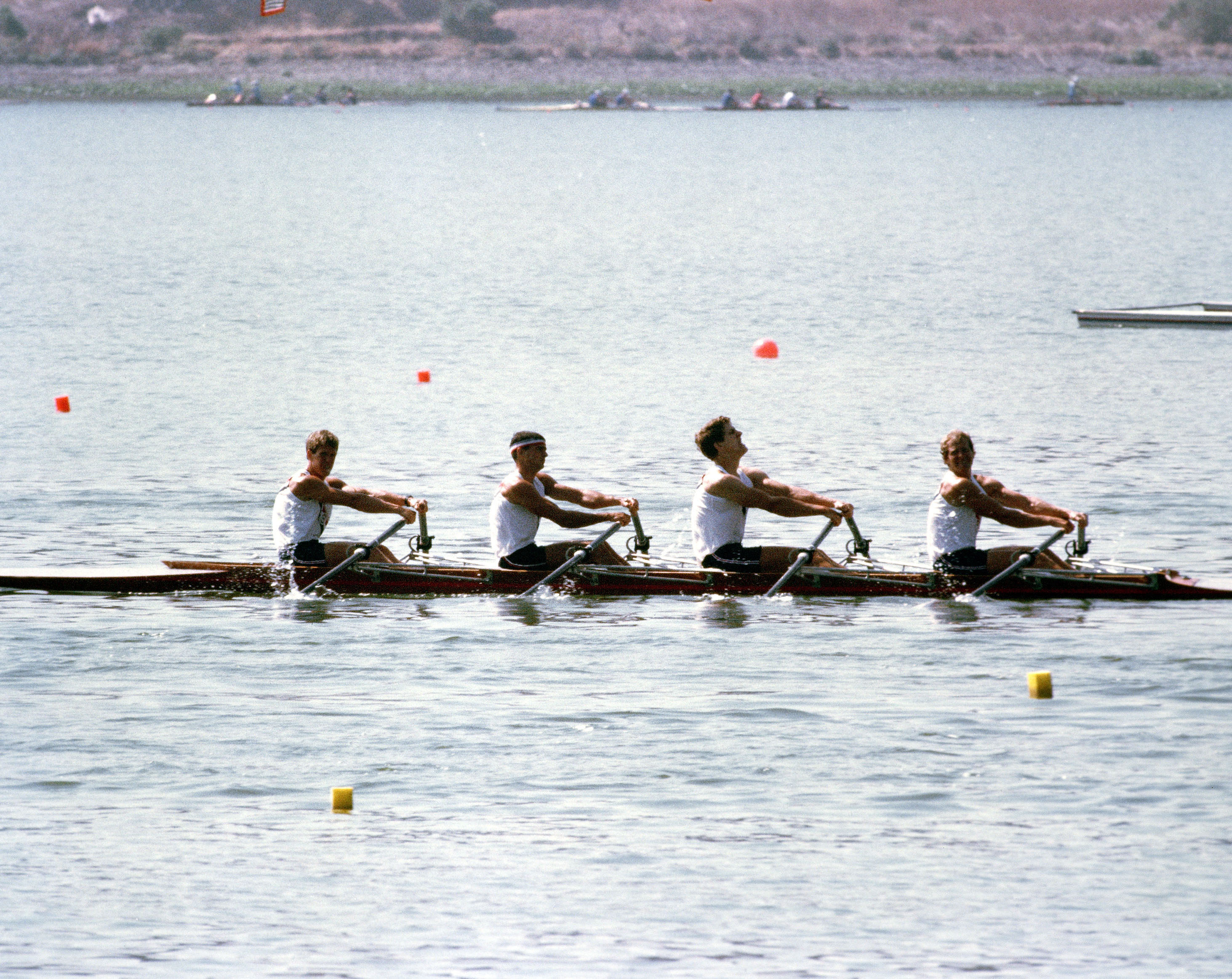 Marine Corps 2nd Lieutenant Greg Montesi, (2nd from left) practices for the sculling competition at the 1984 Summer Olympics.